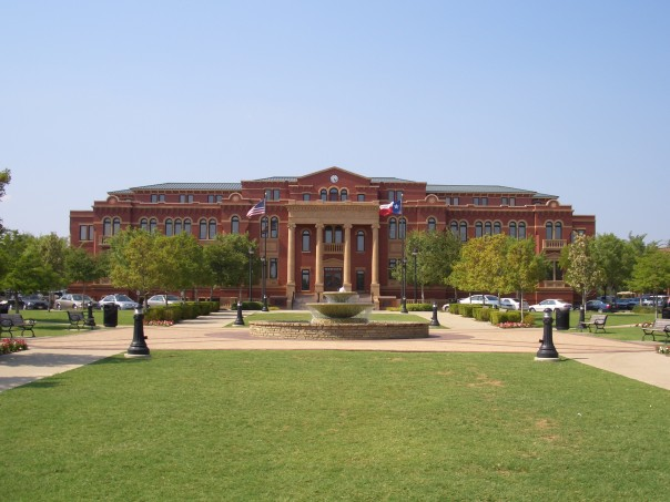 Photo taken of Southlake Town Square on July 23, 2006.